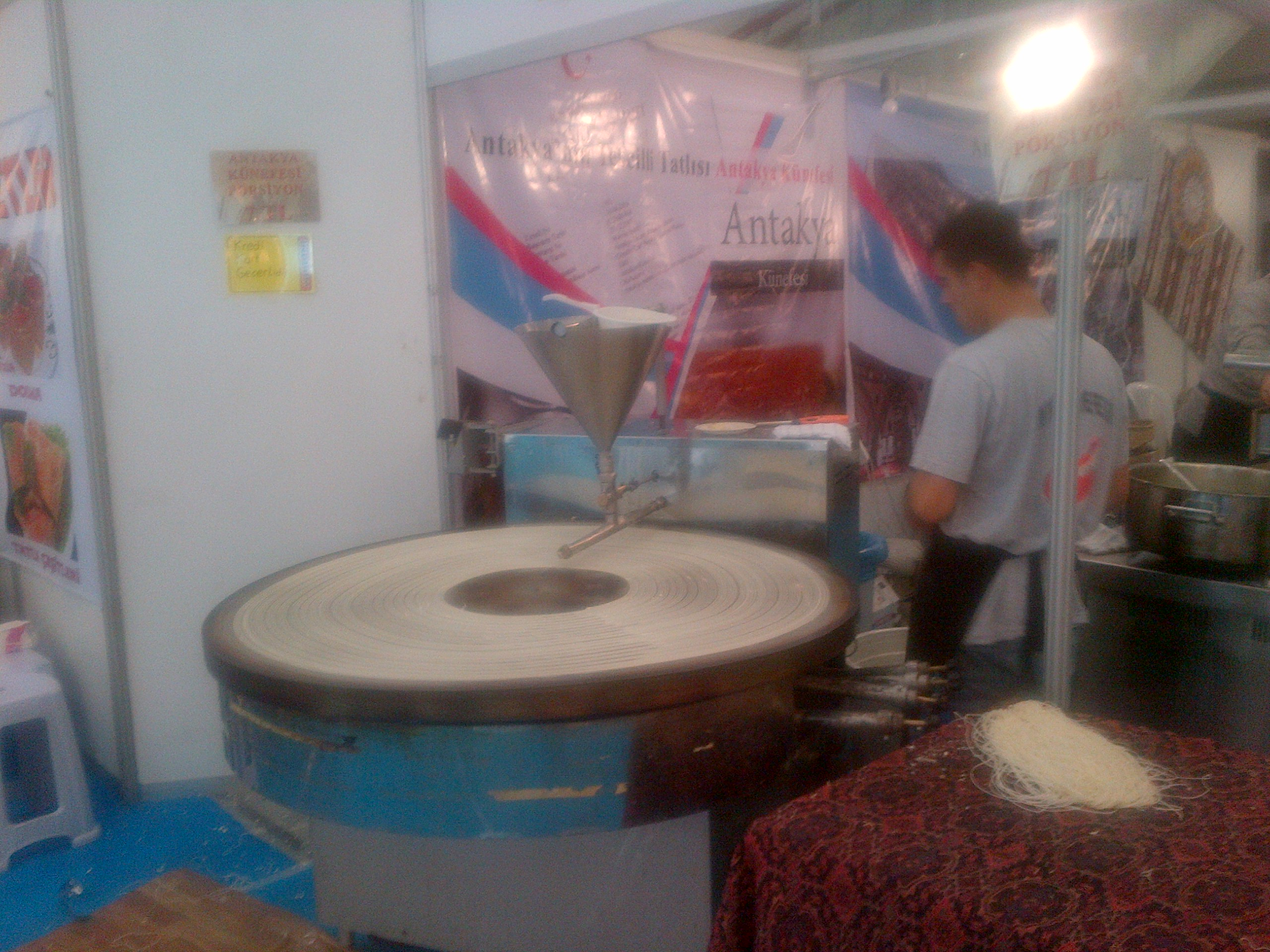 Making of pasta (kadayıf strings) to prepare the famous Antakya künefesi (kadayıf with "Urfa cheese" inside)